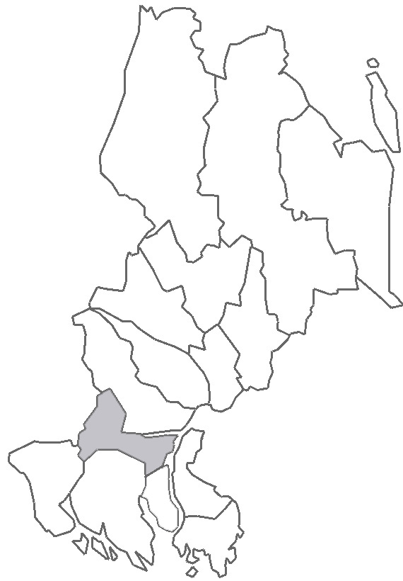 Map describing the location of Lagunda Hundred in Uppsala County, Sweden.